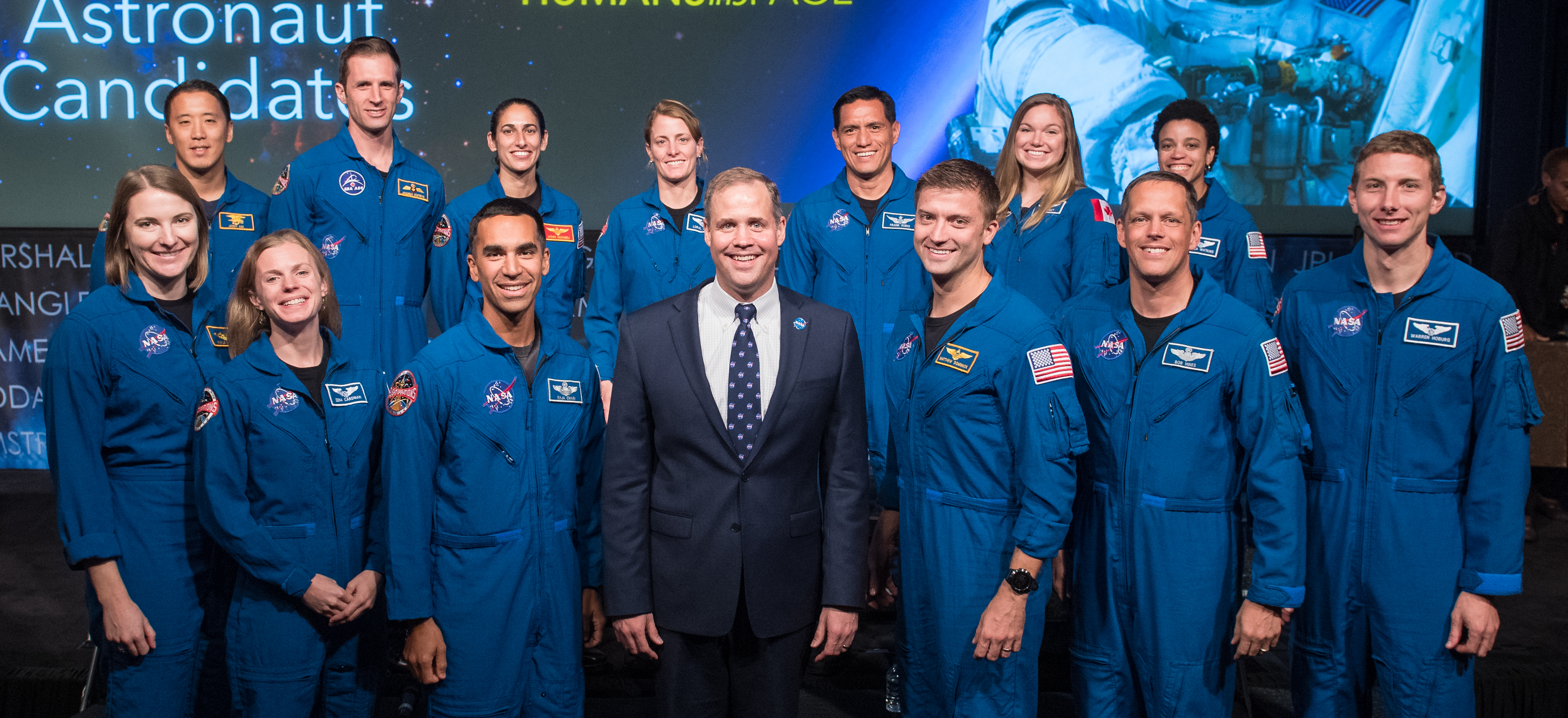 NASA Administrator Jim Bridenstine poses for a picture with the 2017 astronaut candidate class after taping a live episode of the Administrator's monthly chat show, Watch This Space, Thursday, Sept. 27, 2018 in the Webb Auditorium at NASA Headquarters in Washington. NASA astronaut candidates, back row from left, Jonny Kim, Joshua Kutryk of the Canadian Space Agency, Jasmin Moghbeli, Loral O’Hara, Frank Rubio, Jennifer Sidey-Gibbons of the Canadian Space Agency, Jessica Watkins, front row from left, Kayla Barron, Zena Cardman, Raja Chari, Matthew Dominick, Bob Hines, and Warren Hoburg.